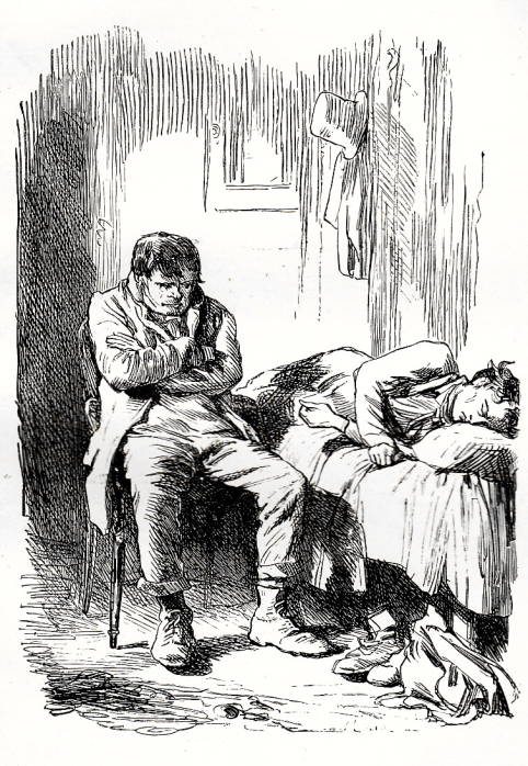 Rogue Ridehood meditating in his house